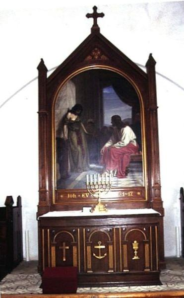 Sandholts Lyndelse Kirke (church) from apr. 1100.